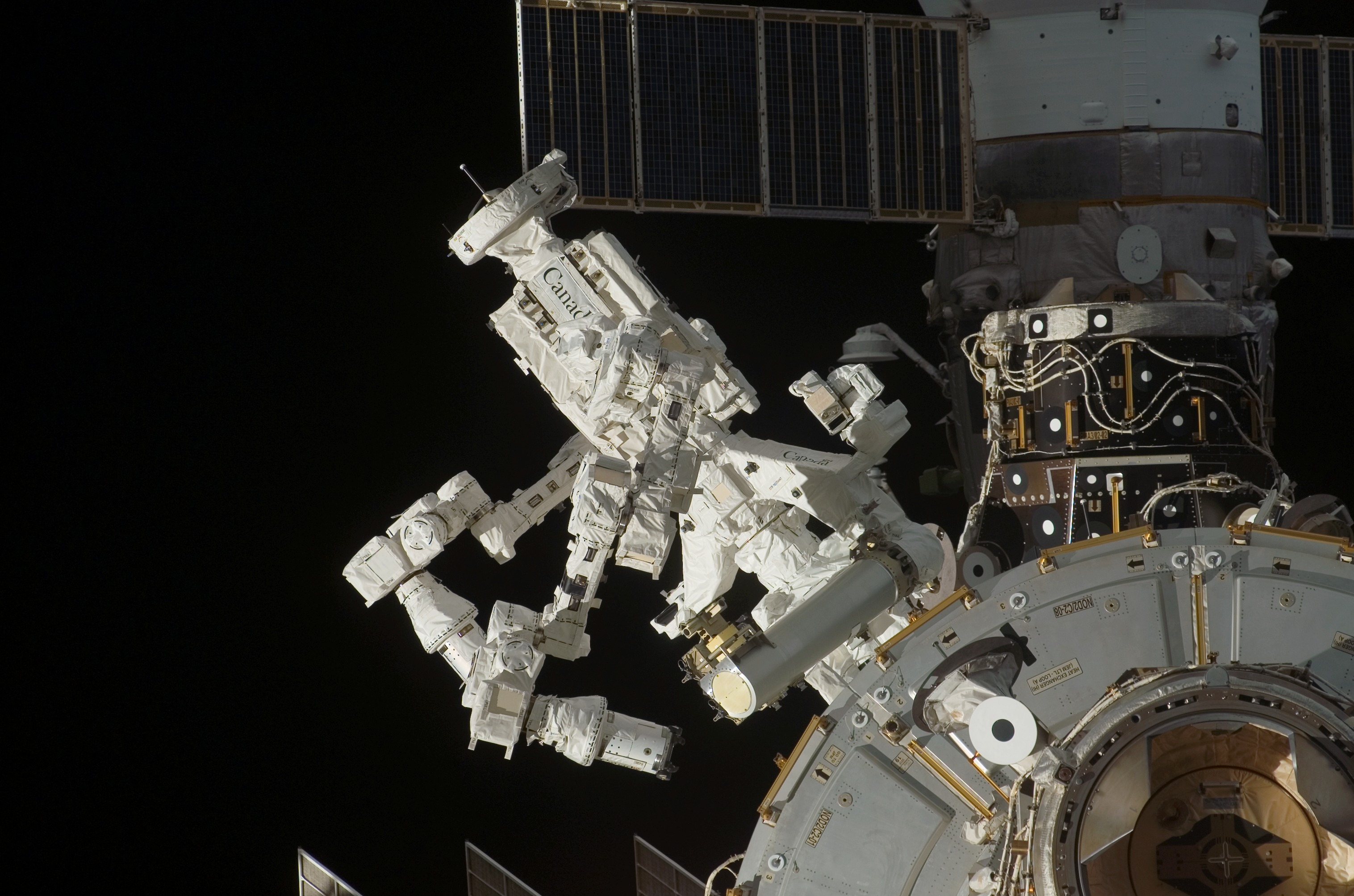 Located on the exterior of the International Space Station's Harmony node, the Canadian-built Dextre, also known as the Special Purpose Dextrous Manipulator, is photographed from Space Shuttle Endeavour as the two spacecraft begin their relative separation. Designed for station maintenance and service, Dextre is capable of sensing forces and movement of objects it is manipulating. It can automatically compensate for those forces and movements to ensure an object is moved smoothly. Dextre is the final element of the station's Mobile Servicing System. Earlier the STS-123 and Expedition 16 crews concluded 12 days of cooperative work onboard the shuttle and station. Undocking of the two spacecraft occurred at 7:25 p.m. (CDT) on March 24, 2008.